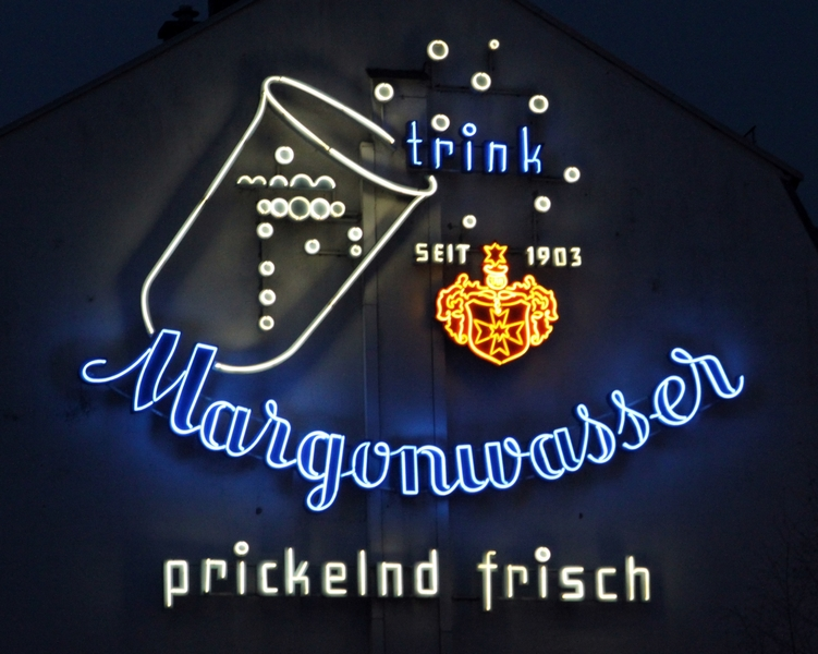 Pirna: Electronic signage for Margonwasser (mineral water).